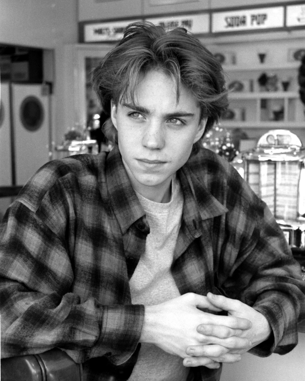 Jonathan Brandis Dec.1993 in a Ventura Blvd diner in Los Angeles.